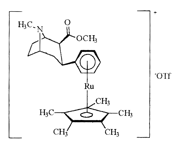 IUPAC: [η5-(pentamethylcyclopentadienyl)]-[η6-(2β-carbomethoxy-3β-phenyl)tropane]ruthenium-(II) triflate